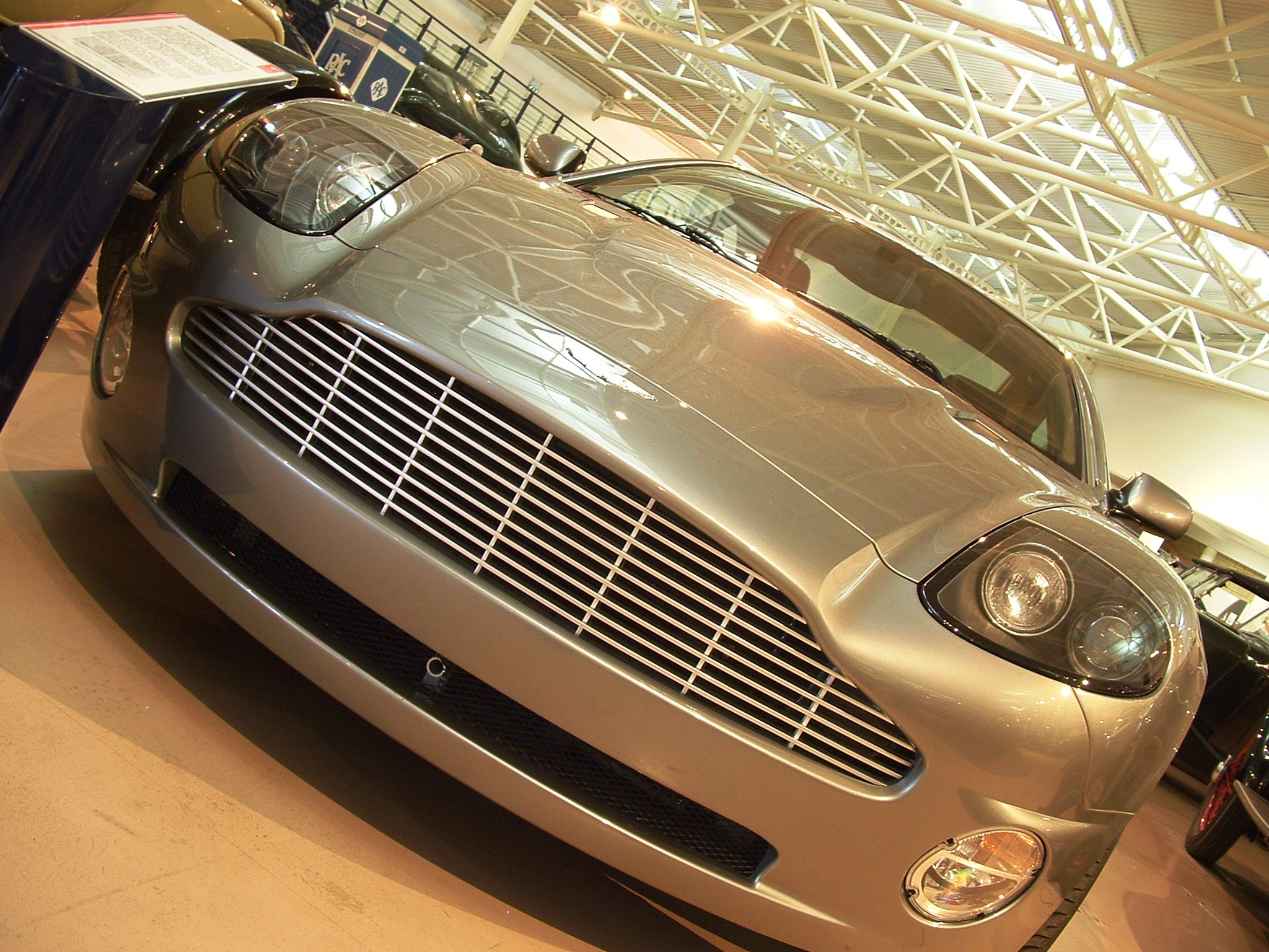 Photographer: Andy Connolly Subject: Aston Martin V12 Vanquish at the Gaydon Motor Heritage Museum